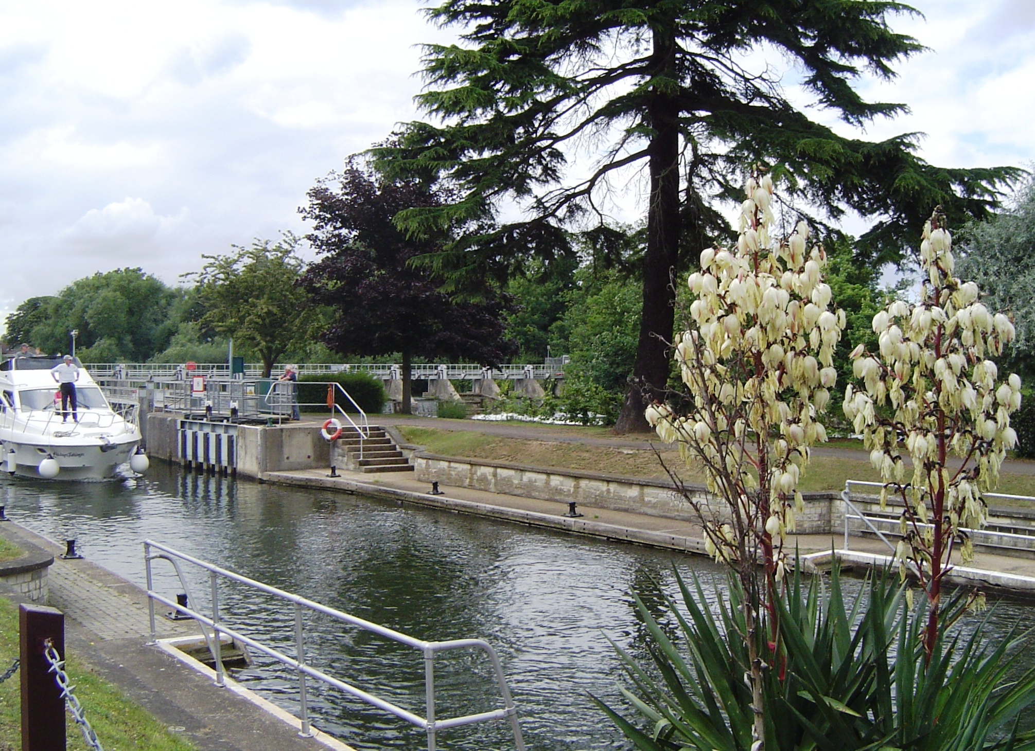 Bell Weir Lock, River Thames